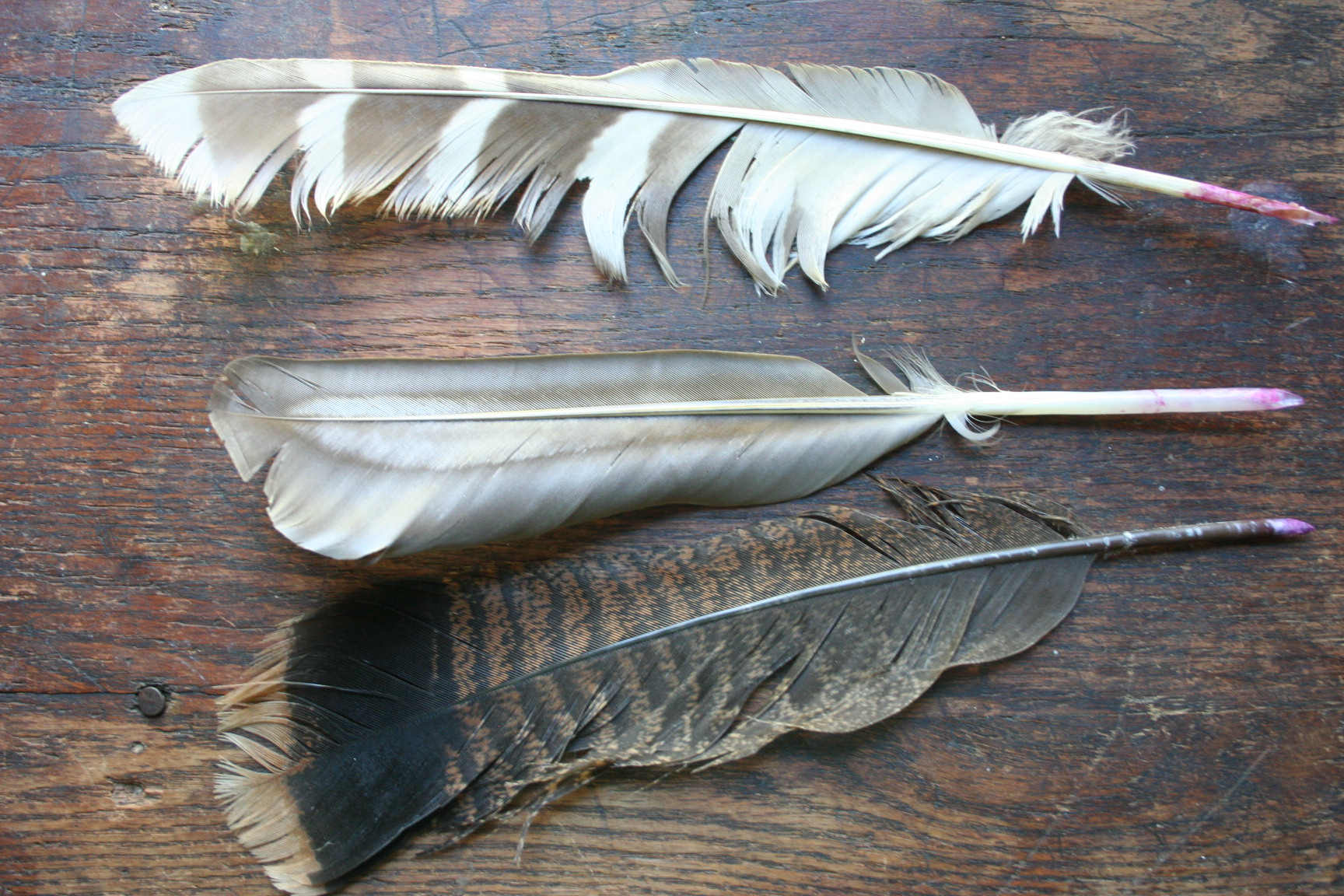 Some quills